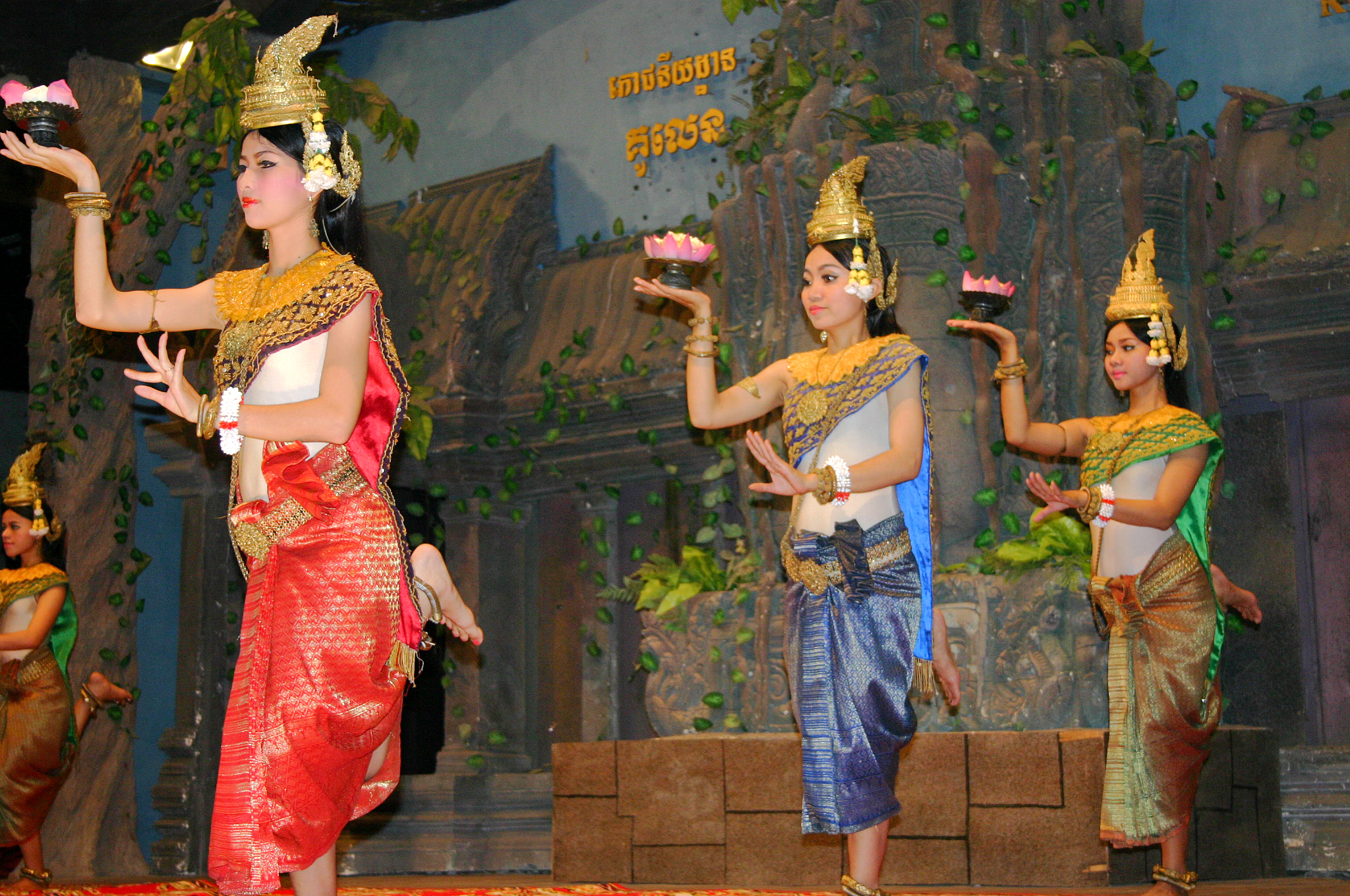 Khmer classical dance